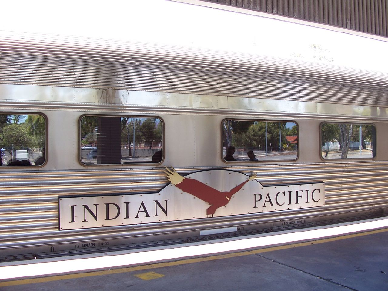 Indian Pacific on the platform at East Perth